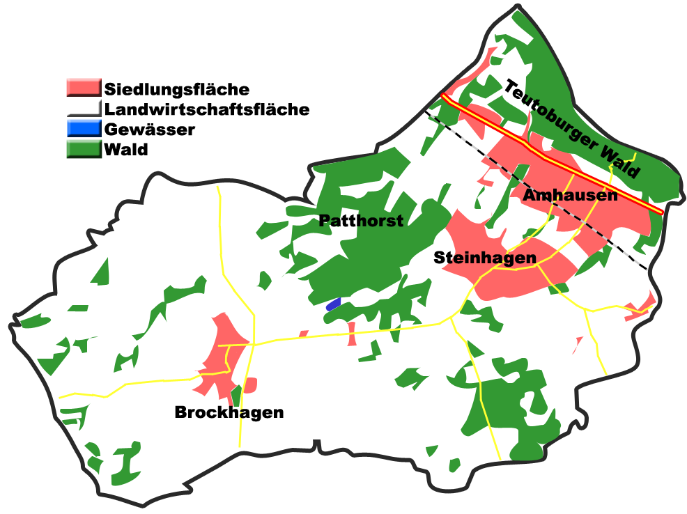 Land usage in Steinhagen (Westfalen), County of Gütersloh, Germany